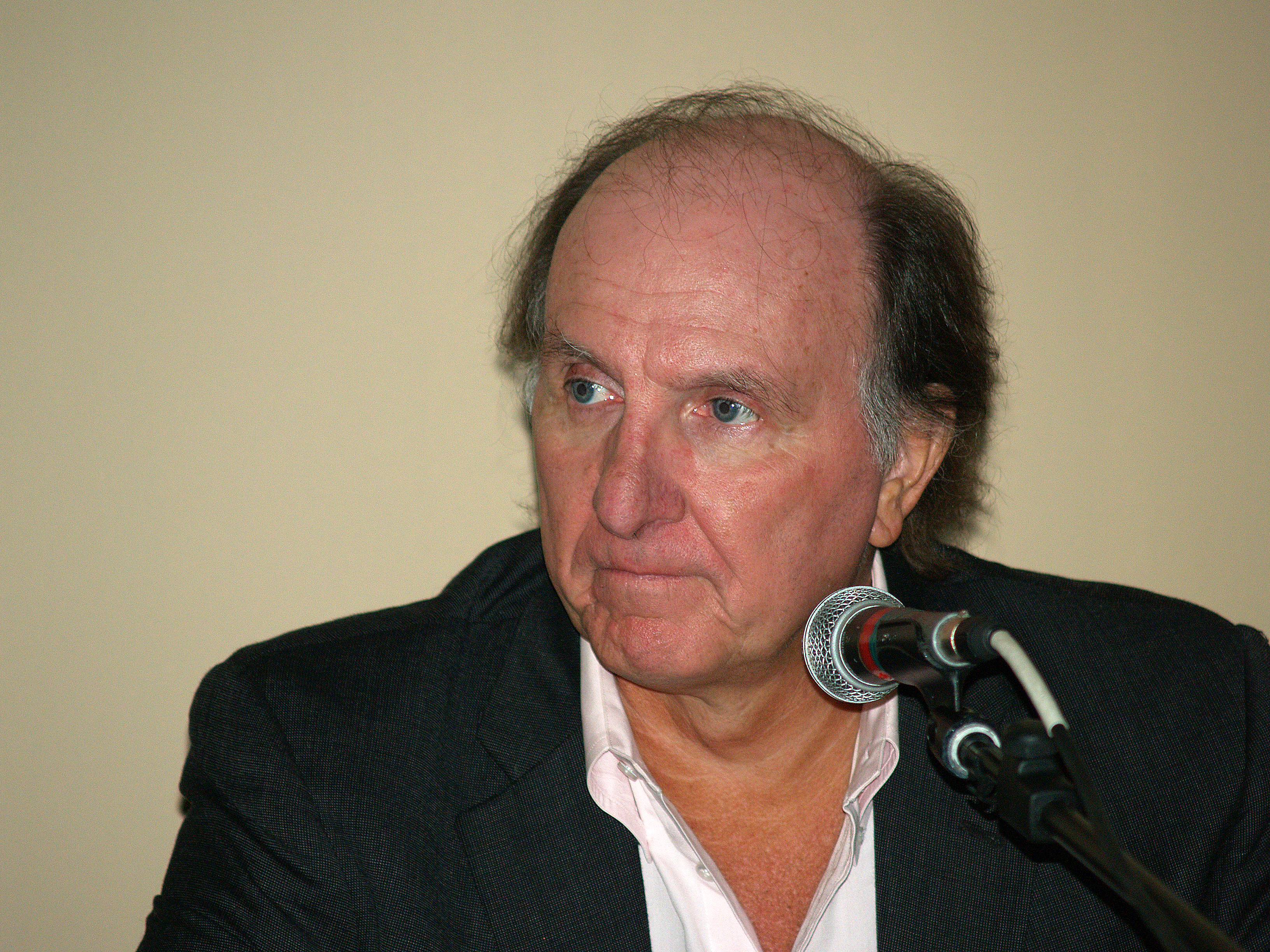 Wayne Barrett by David Shankbone